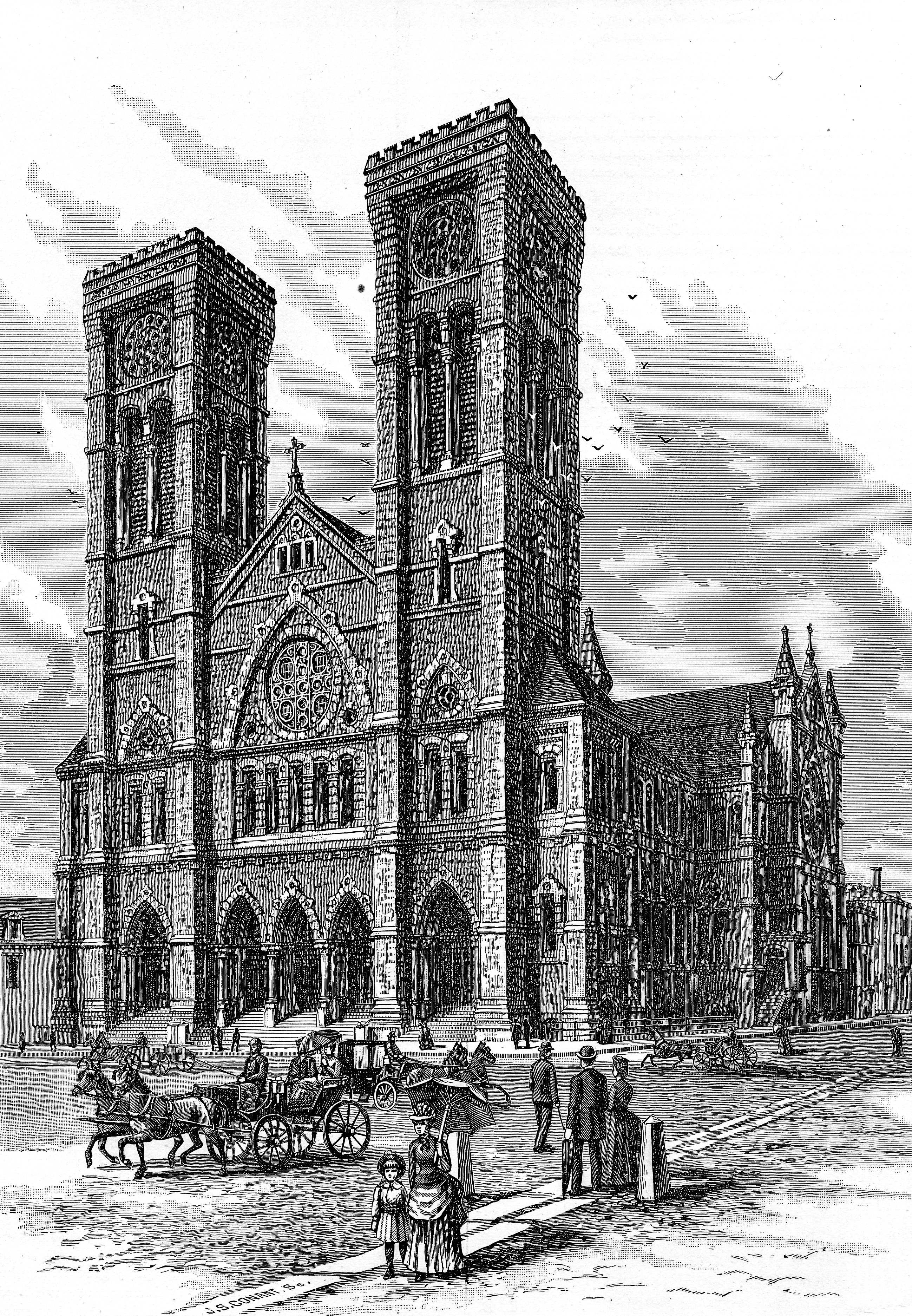 Published in The Providence Plantations for 250 Years (1886), pg. 154